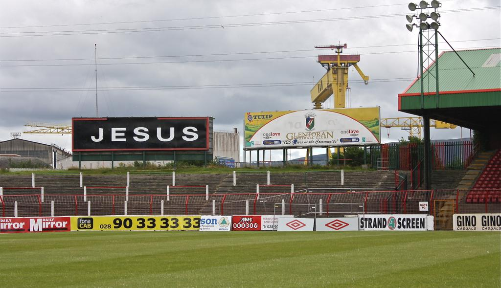 The (since removed) Jesus Sign at The Oval in Belfast, Northern Ireland